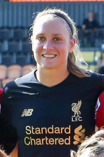 2019–20 FA WSL: Tottenham Hotspur FC Women v Liverpool FC Women, 15 September 2019 – Liverpool starting line-up.